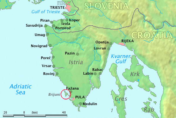 Map of Istria, Brijuni